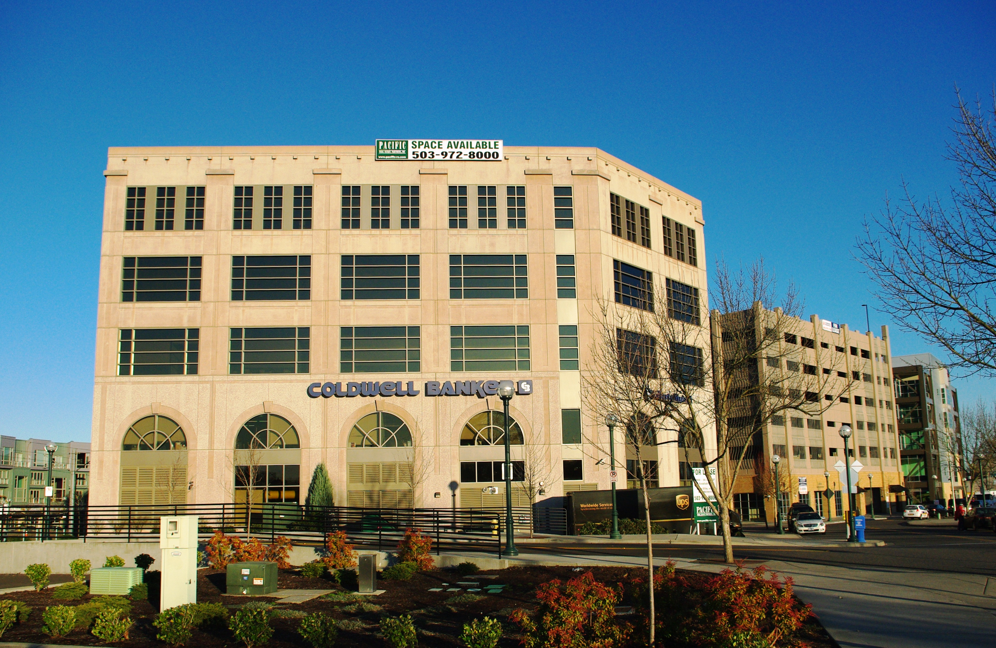 Part of The Round in Beaverton, Oregon, USA.